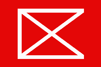 Flag from the neighbourhood of Deusto, Bilbao)